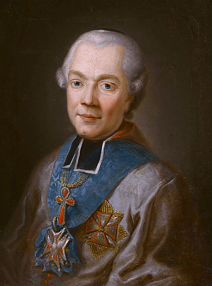 Ignacy Jakub Massalski by Franciszek Smuglewicz